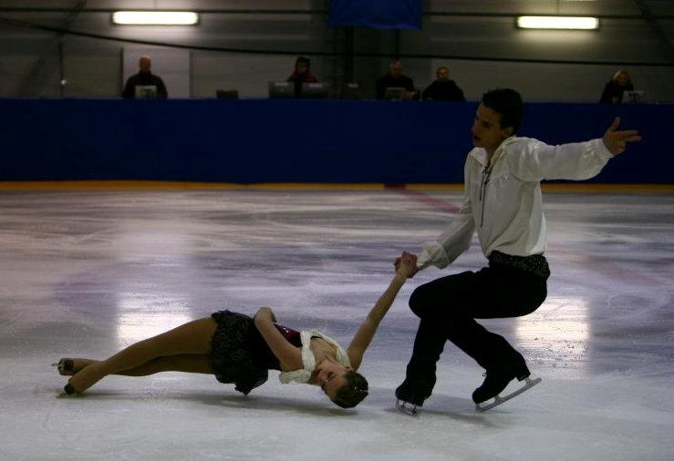 Alexandra Rodríguez and Aritz Maestu FS Tallinn Oct-2011